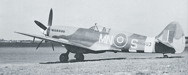 Supermarine Spitfire F.MK XIV, 350(Belgian) Squadron, Hawkinge, early 1944.